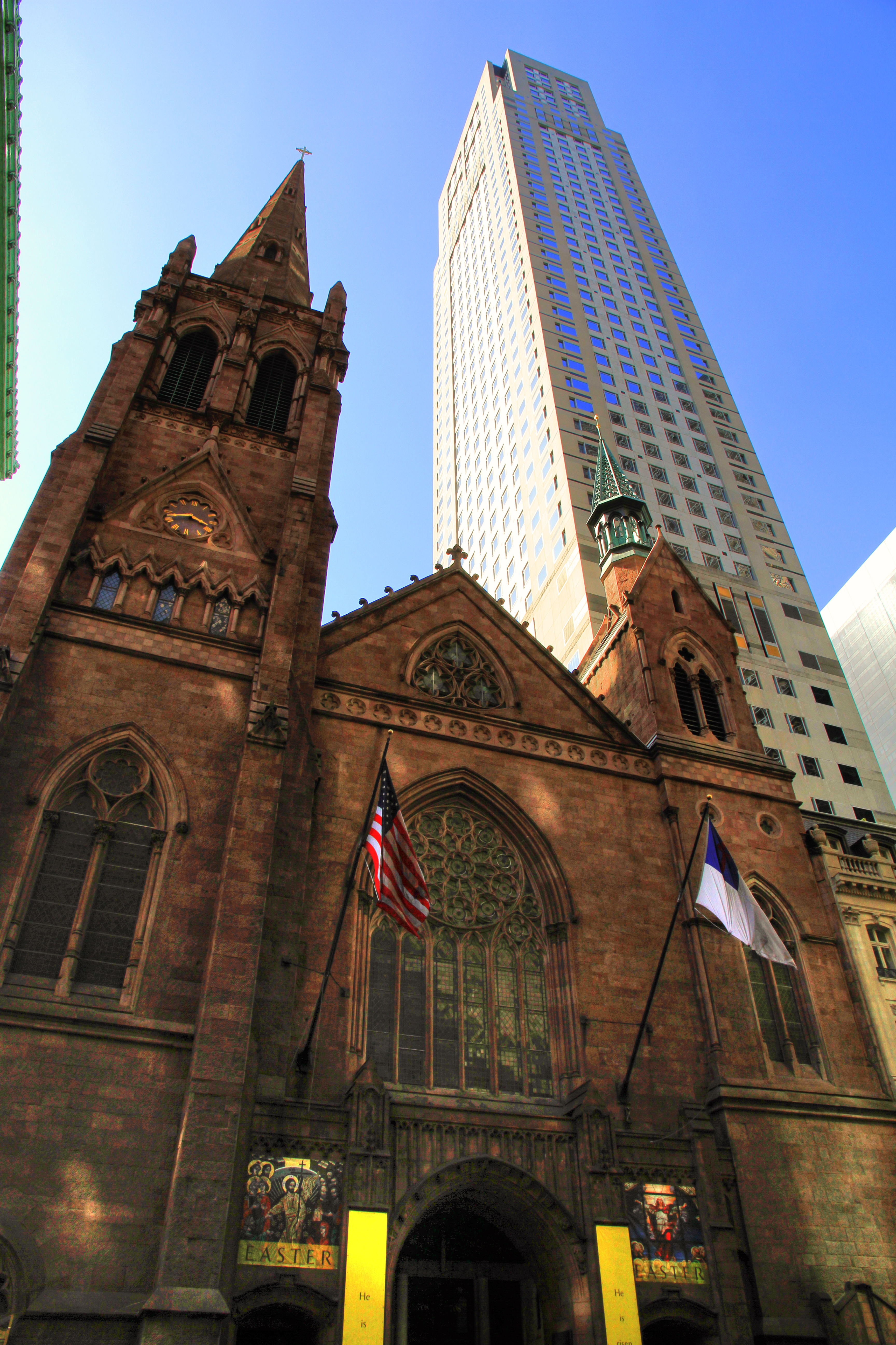 Fifth Avenue Presbyterian Church